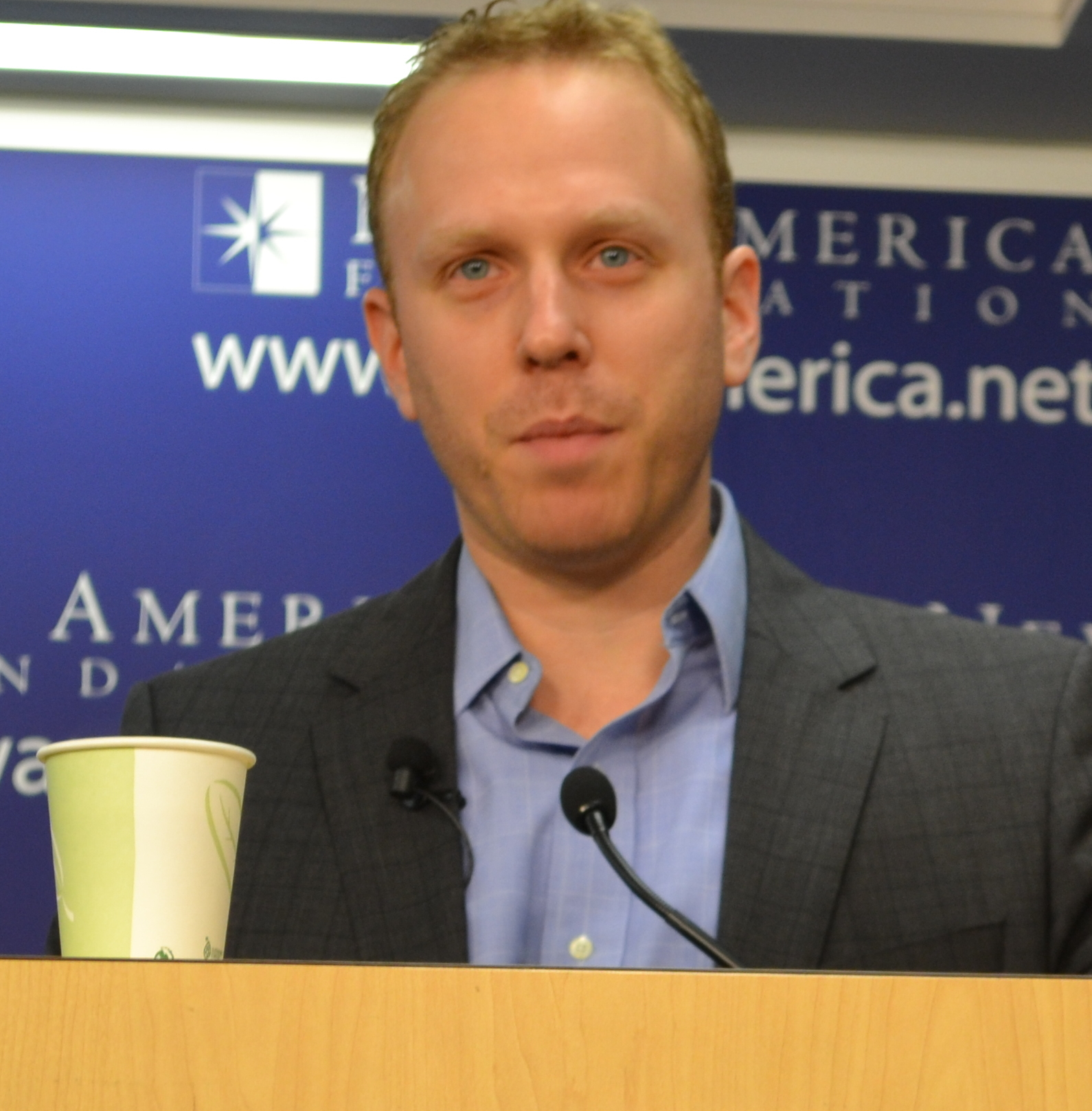 Max Blumenthal